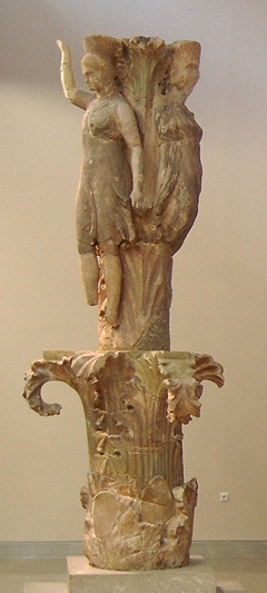 The Akanthos Column, National Archaeological Museum in Delphi.